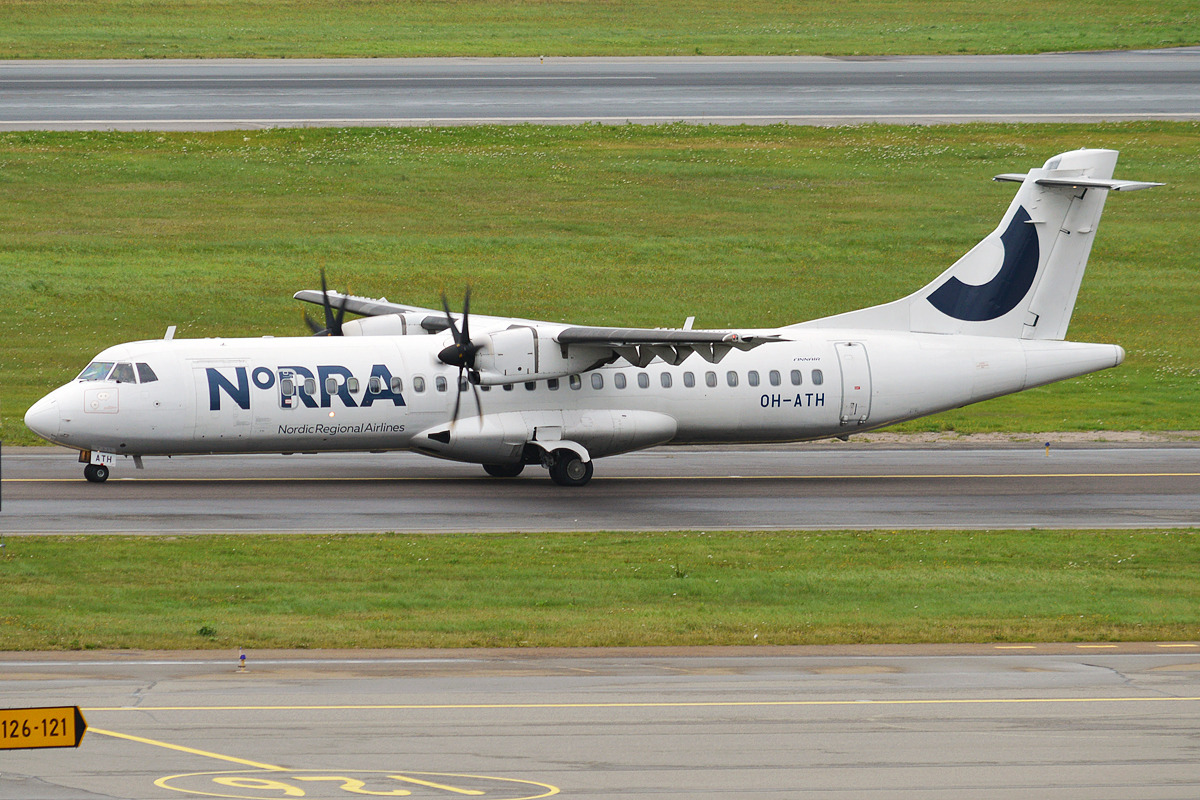 Nordic Regional Airlines ATR 72-500 at Helsinki-Vantaa Airport